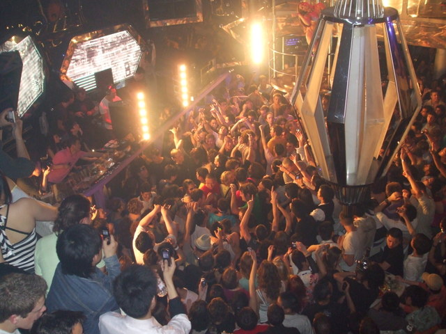 Banana Club G.T. in Beijing, China